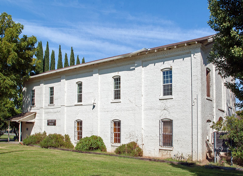 Molino Lodge Building, 3rd and C Streets in Tehama, California